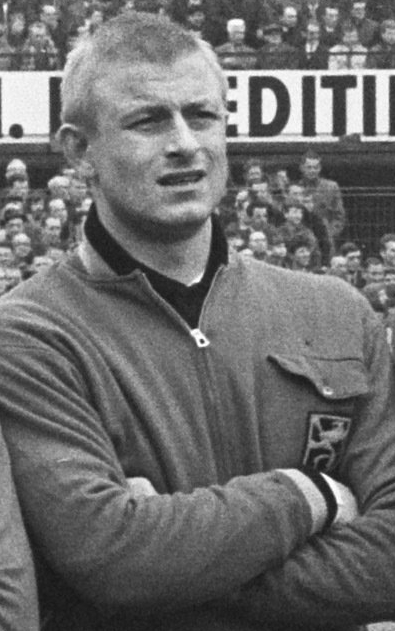 Jean Trappeniers, before the international game Netherlands vs. Belgium, April 17, 1966.